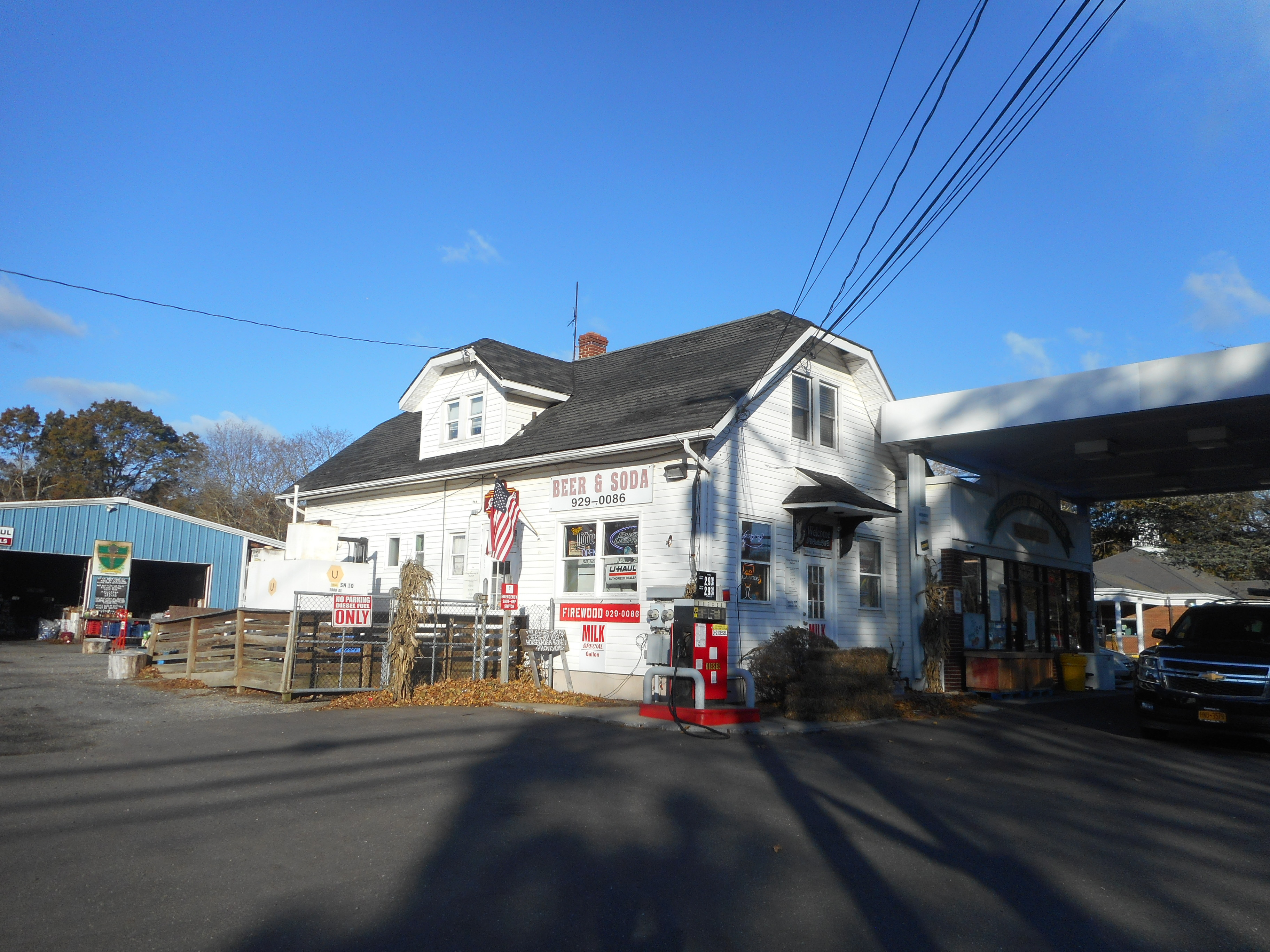 The Village Beverage and Market, a gas station, convenience store, soda and beer distributor, liquor store, bait and tackle shop, firewood dealer and much more on Wading River-Manor Road north of New York State Route 25A in Wading River New York. The store is said to have been built with the wood of the former Wading River Long Island Rail Road station, although some have had similar suspicions about a local restaurant built diagonally across the street.